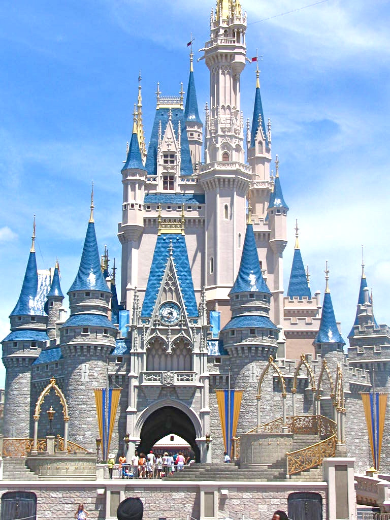 Cinderella Castle Magic Kingdom 07 Edited